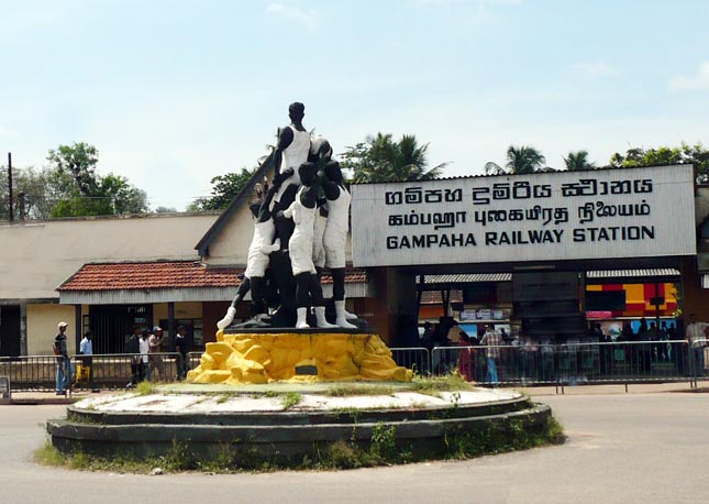 It is a picture of the Gampaha town.